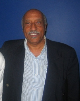 Before a performance at Colgate University (Hamilton, NY) in 2005